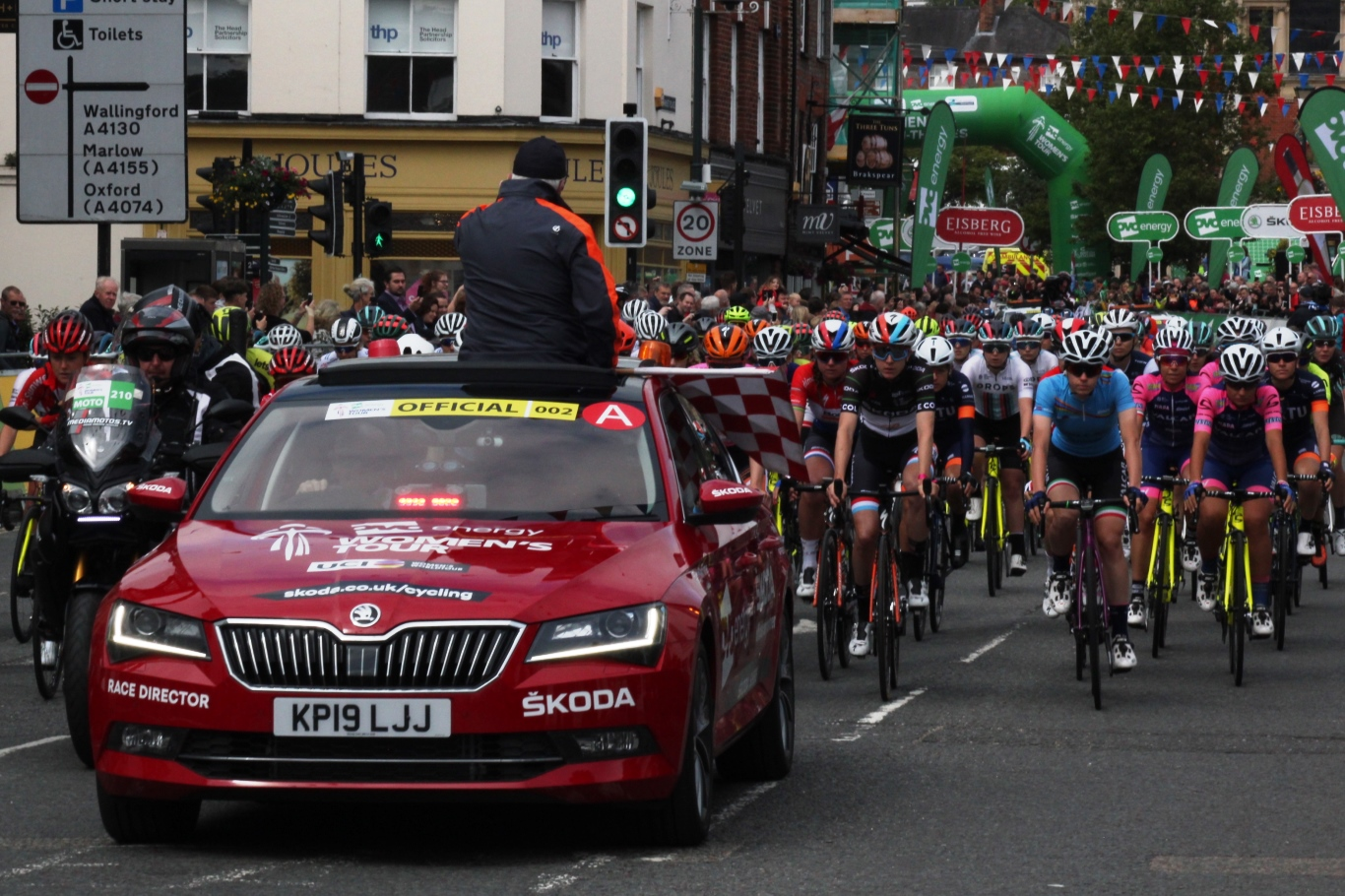 The third stage for the 2019 Women's Tour gets underway in Henley-on-Thames, on its way to Blenheim Palace.